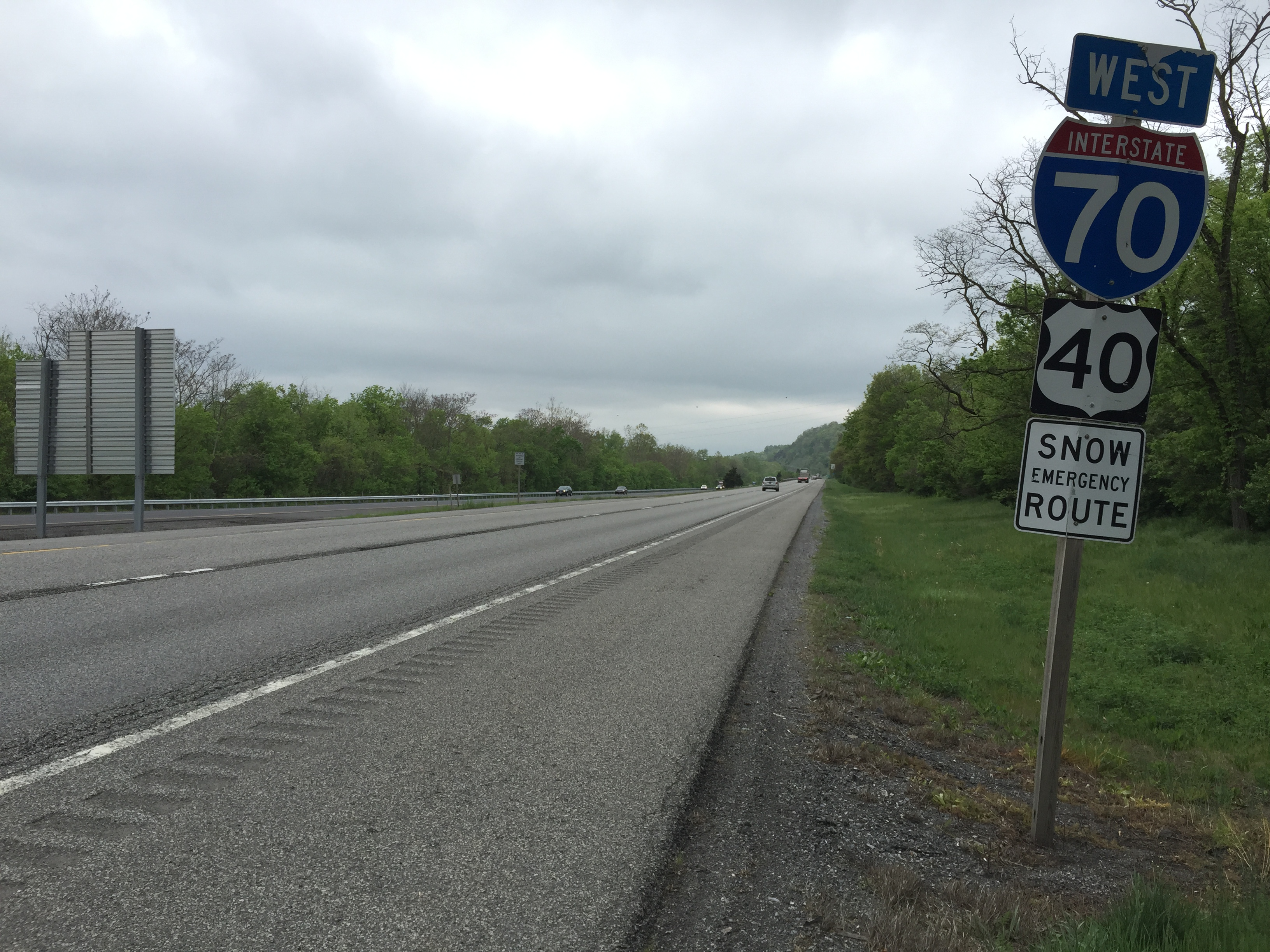 View west along Interstate 70 and U.S. Route 40 in Park Head, Washington County, Maryland